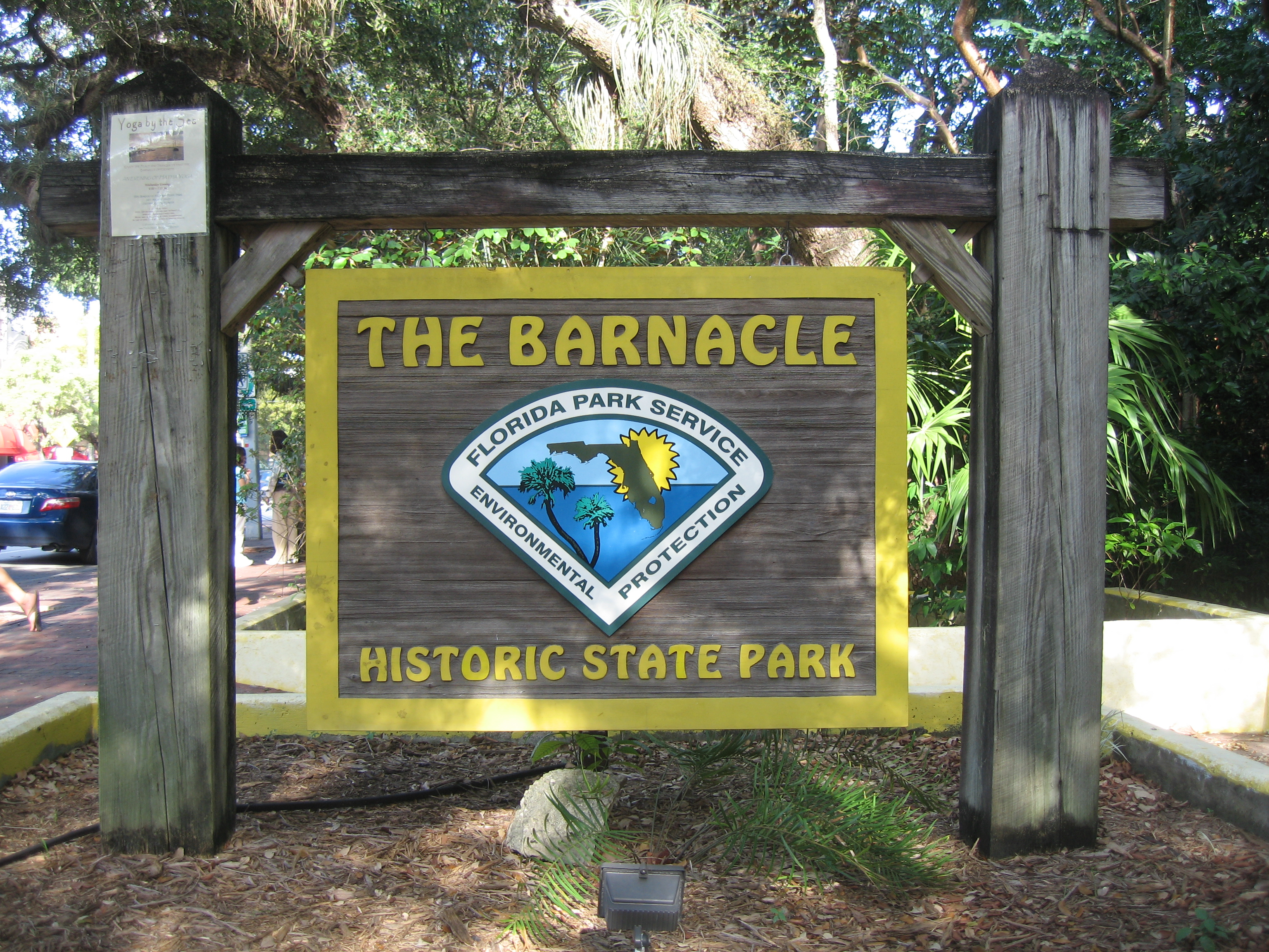 Sign at The Barnacle Historic State Park, 3485 Main Highway, Coconut Grove, Florida.